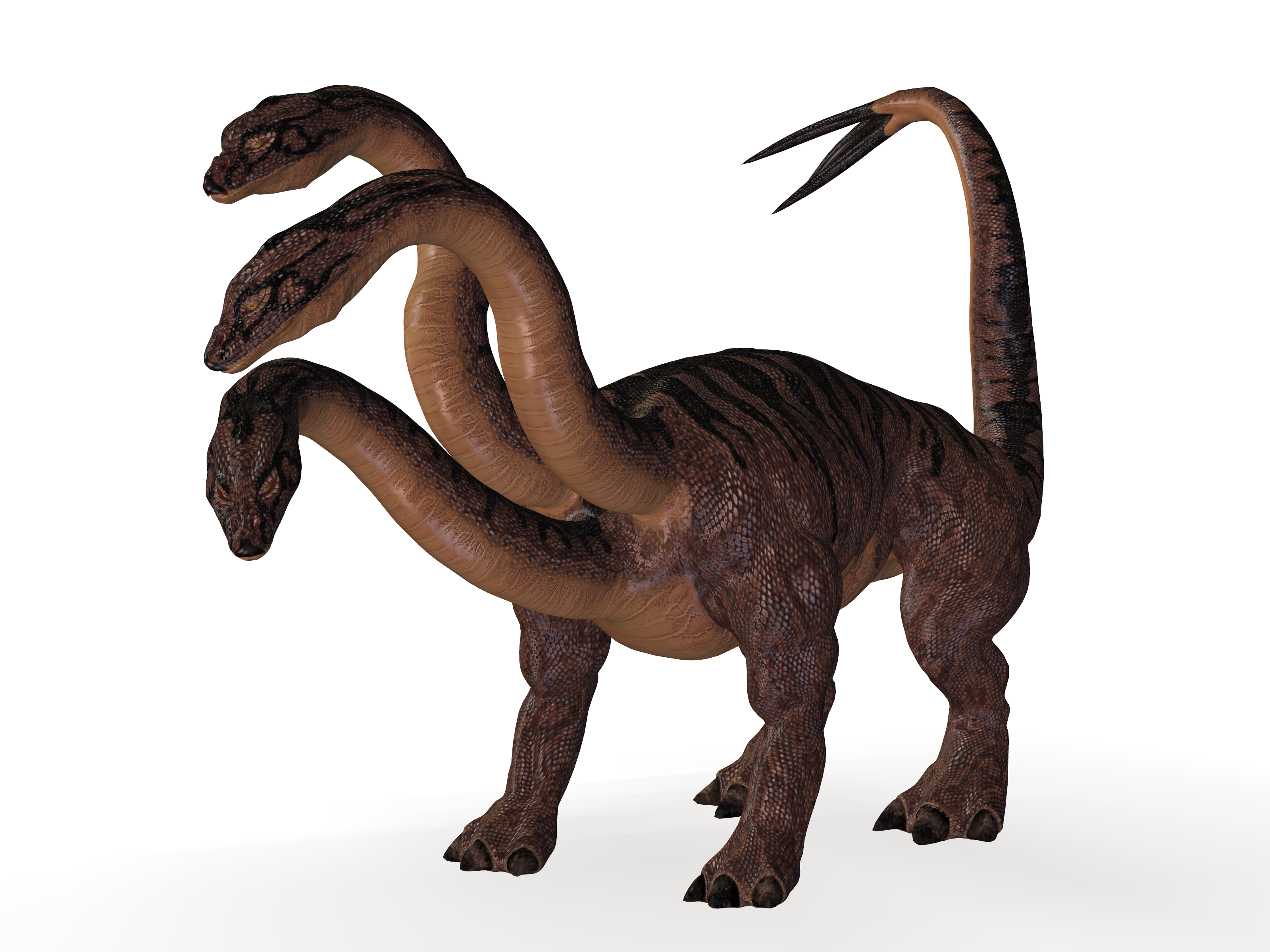 The mythical creature Hydra as envisioned by SilviaP_Design